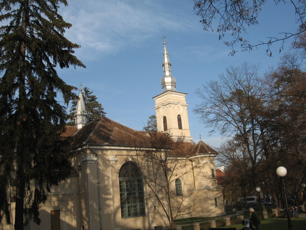 Covasna County ,Sf. Gheorghe, Romano catholic church